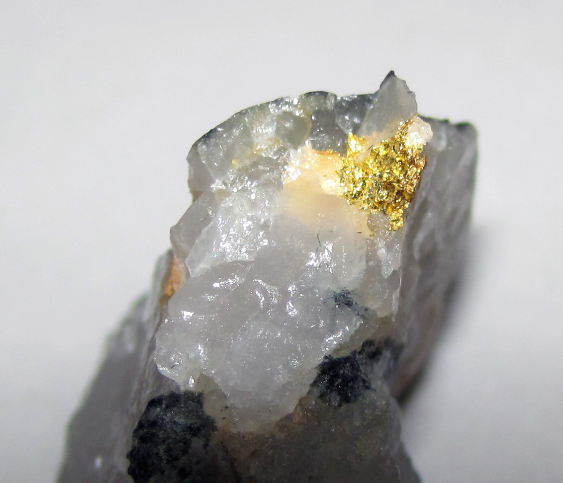 Gold-quartz hydrothermal vein (7 to 8 mm across at the top) from the Archean of Manitoba, Canada. Gray = quartz (SiO2) Yellow gold area = native gold (Au) Geologic unit & age: hydrothermal vein intruding greenstones (metagabbros) of the San Antonio Sill (San Antonio Mine unit), Rice Lake Group, Rice Lake-Beresford Lake Greenstone Belt (Uchi Greenstone Belt), western Superior Province, Canadian Shield; host rocks (greenstones) are lower Neoarchean, 2.729 Ga. Locality: Bissett Mine, Rice Lake Gold District, southeastern Manitoba, southern Canada.